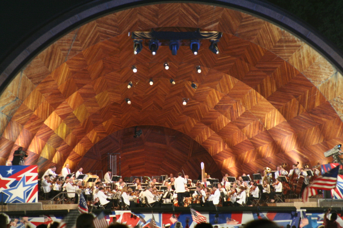 The Boston Pops Esplanade Orchestra performing at the Hatch Shell in Boston.